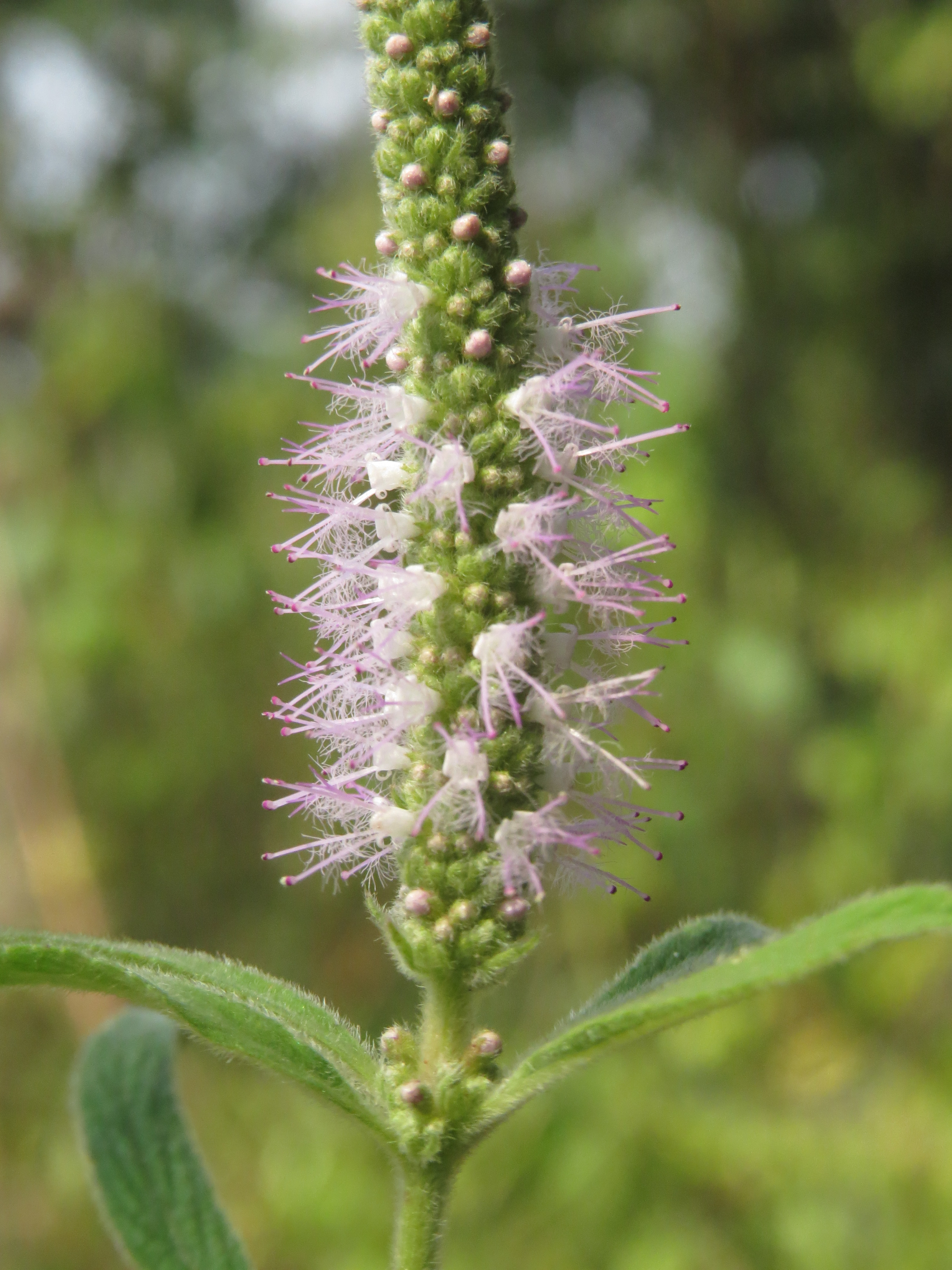 Photos taken at Mayyil and Peravoor